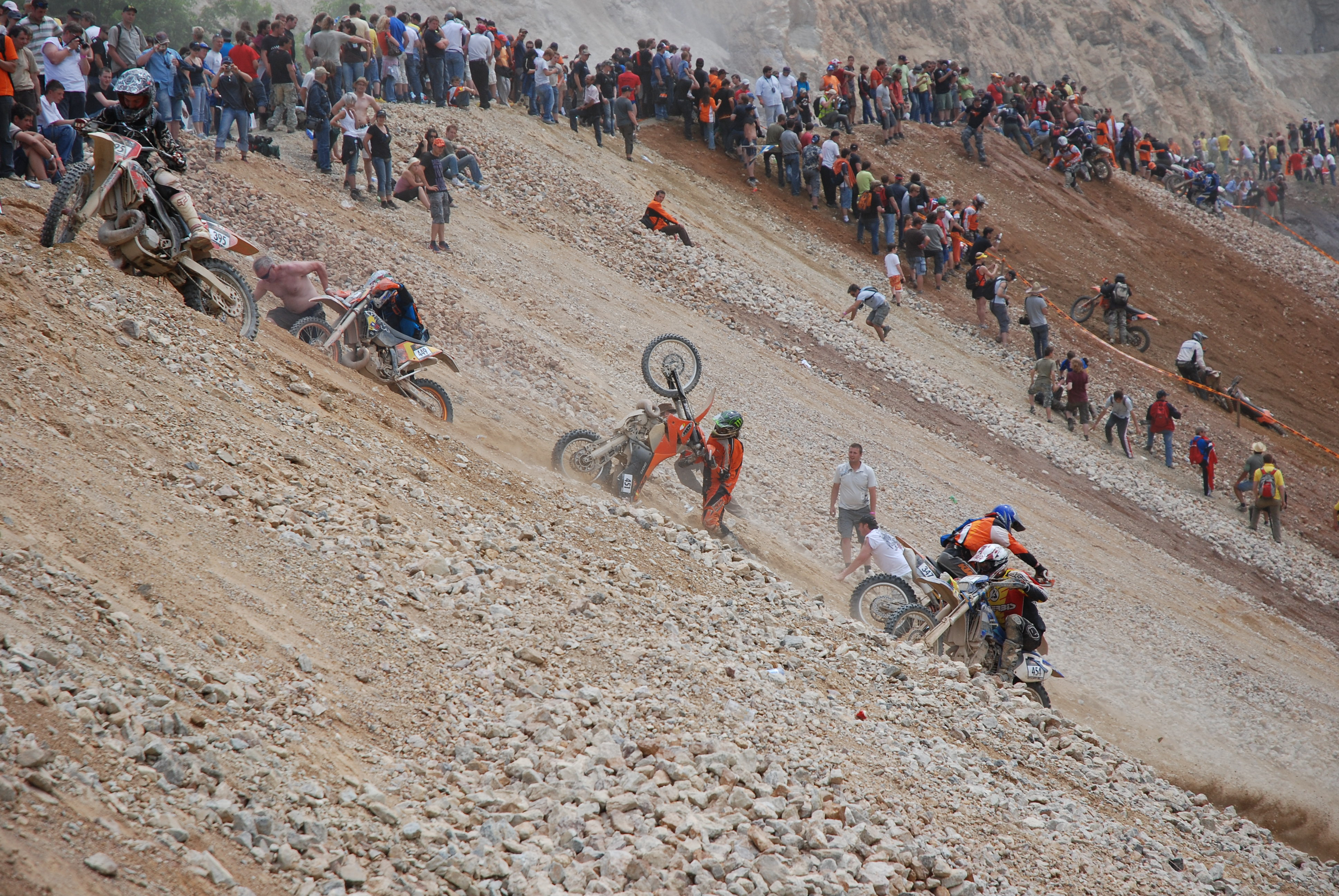 shot at the Erzberg Rodeo Hare- Scramble 2008 - Eisenerz, Austria. This szene was just a few 100m after the start and minimum two hours to the finish line....